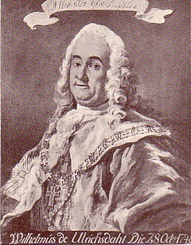 Wilhelm de Ulrichsdal (1692-1765), Danish nobleman and general